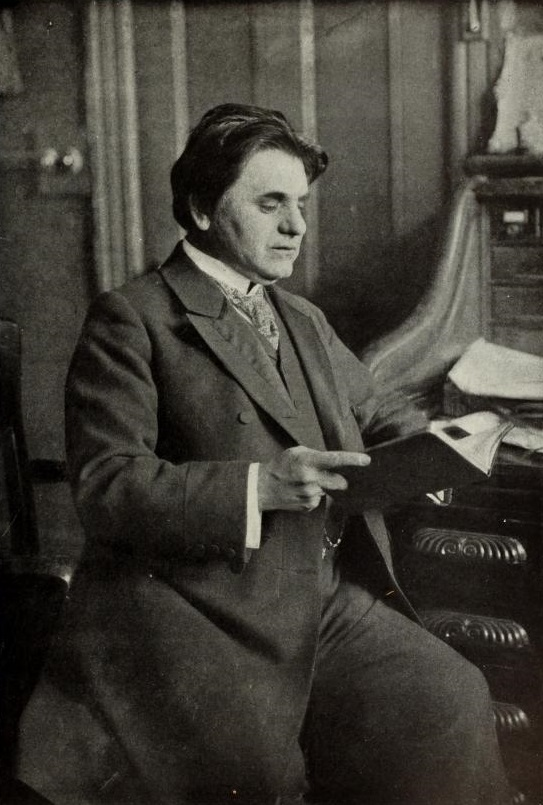 Picture of Heinrich Conried